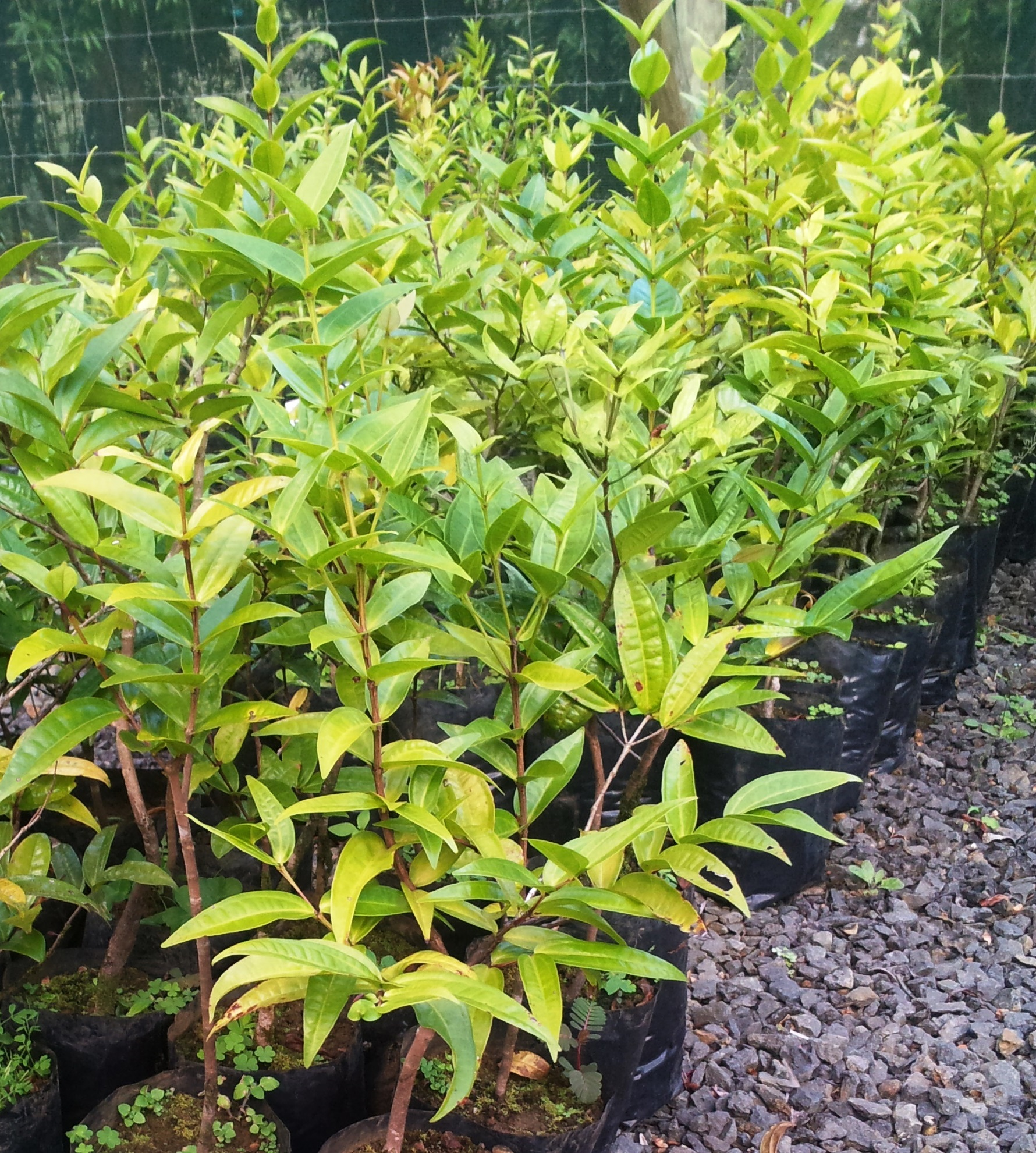 Bois de Canne seedlings - Warneckea trinervis - Ferney nursery